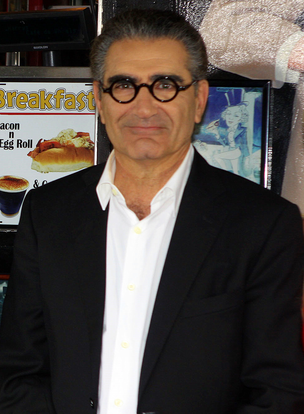 Eugene Levy at the American Pie Reunion, Harry's Cafe de Wheels Sydney 2012.